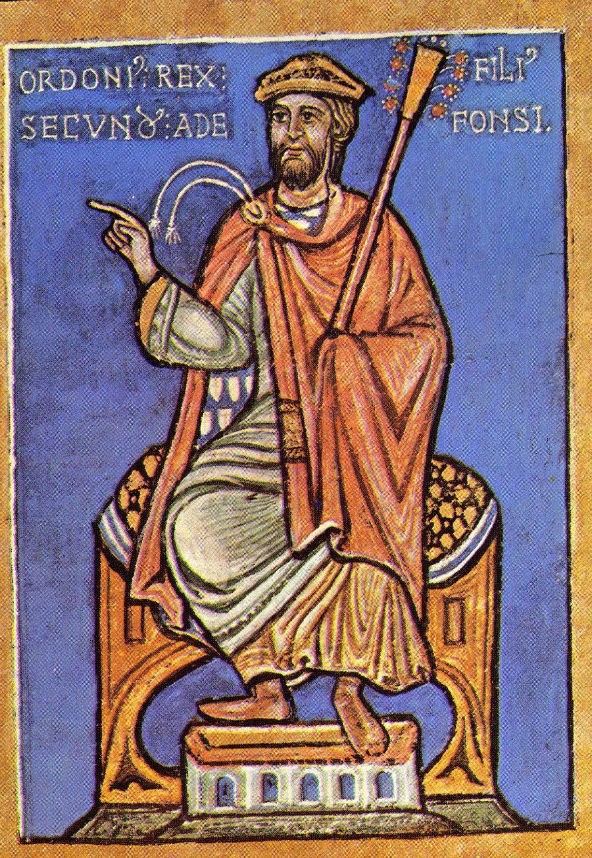 Ordoño II of León